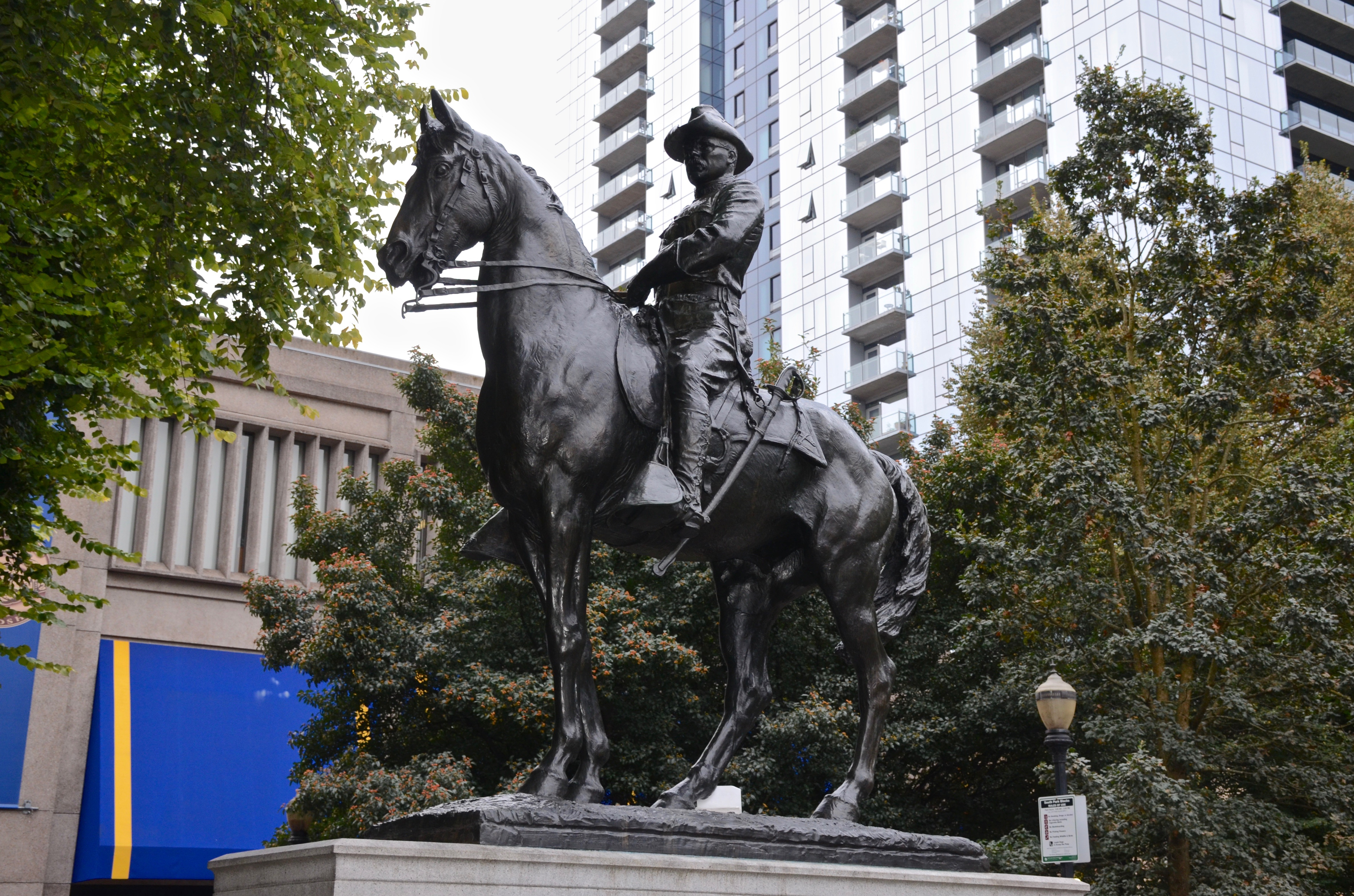 The 1922 statue, Theodore Roosevelt, Rough Rider, in the South Park Blocks, Portland, Oregon. The statue stands atop a 6-foot-tall pedestal, not shown in this photo.